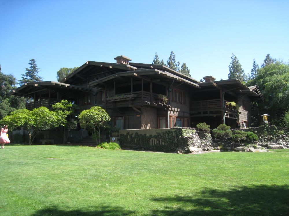 view of Greene & Greene's Gamble House, Pasadena, CA, from back yard.